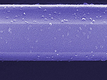 Scanning electron microscope image of a gas sensor segment fabricated of a semiconducting nanowire of gallium nitride. The nanowire of less than 500 nanometers across is coated with nanoclusters of titanium dioxide, which alters the current in the nanowire in the presence of a volatile organic compound and ultraviolet light. Credit: NIST Disclaimer: Any mention of commercial products within NIST web pages is for information only; it does not imply recommendation or endorsement by NIST. Use of NIST Information: These World Wide Web pages are provided as a public service by the National Institute of Standards and Technology (NIST). With the exception of material marked as copyrighted, information presented on these pages is considered public information and may be distributed or copied. Use of appropriate byline/photo/image credits is requested.